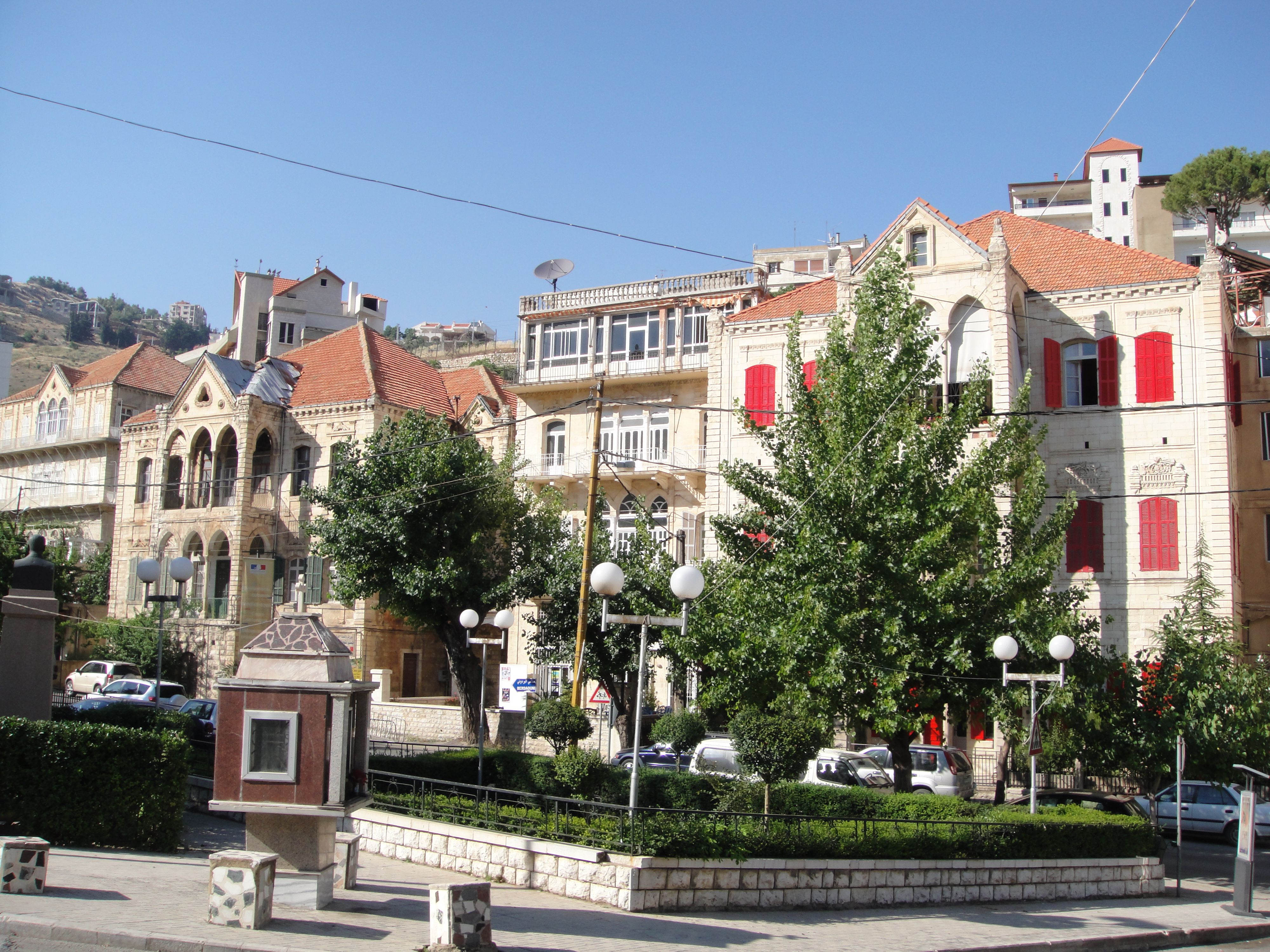 Street in Zahleh.